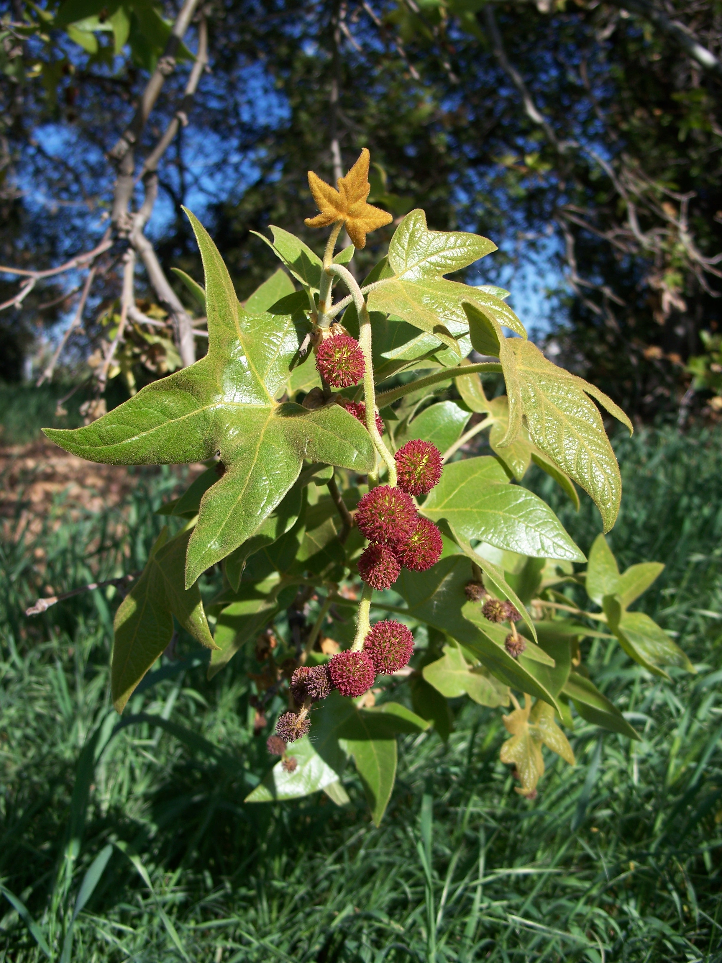 California Sycamore, Western Sycamore, Aliso